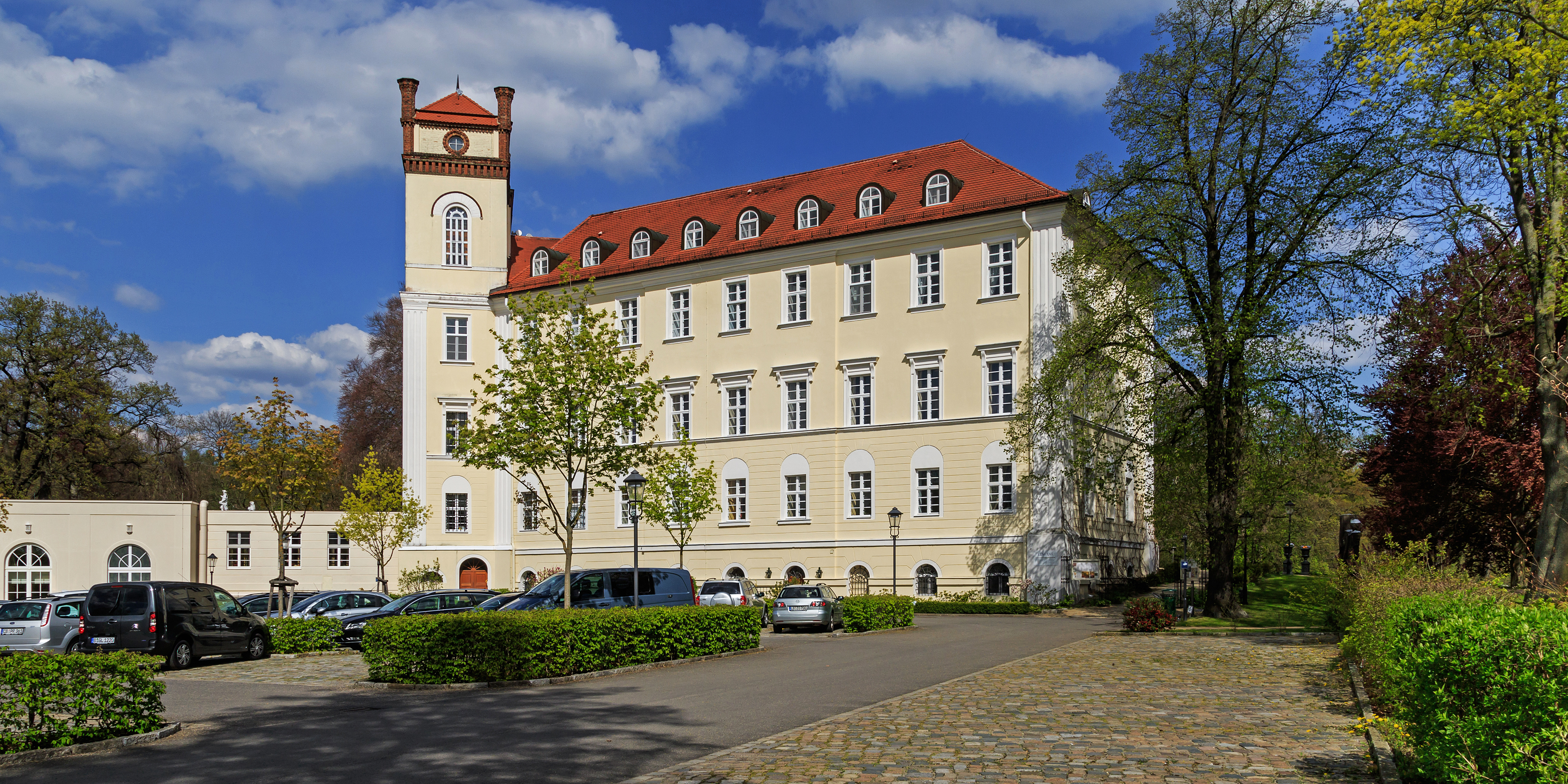 Manor in Lübbenau/Spreewald, Brandenburg, Germany